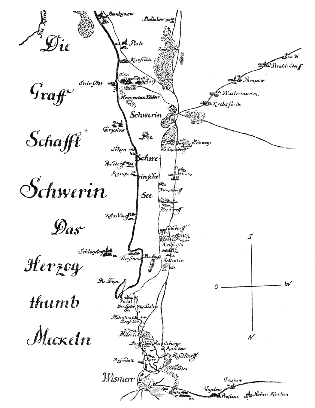 Schweriner See 1582